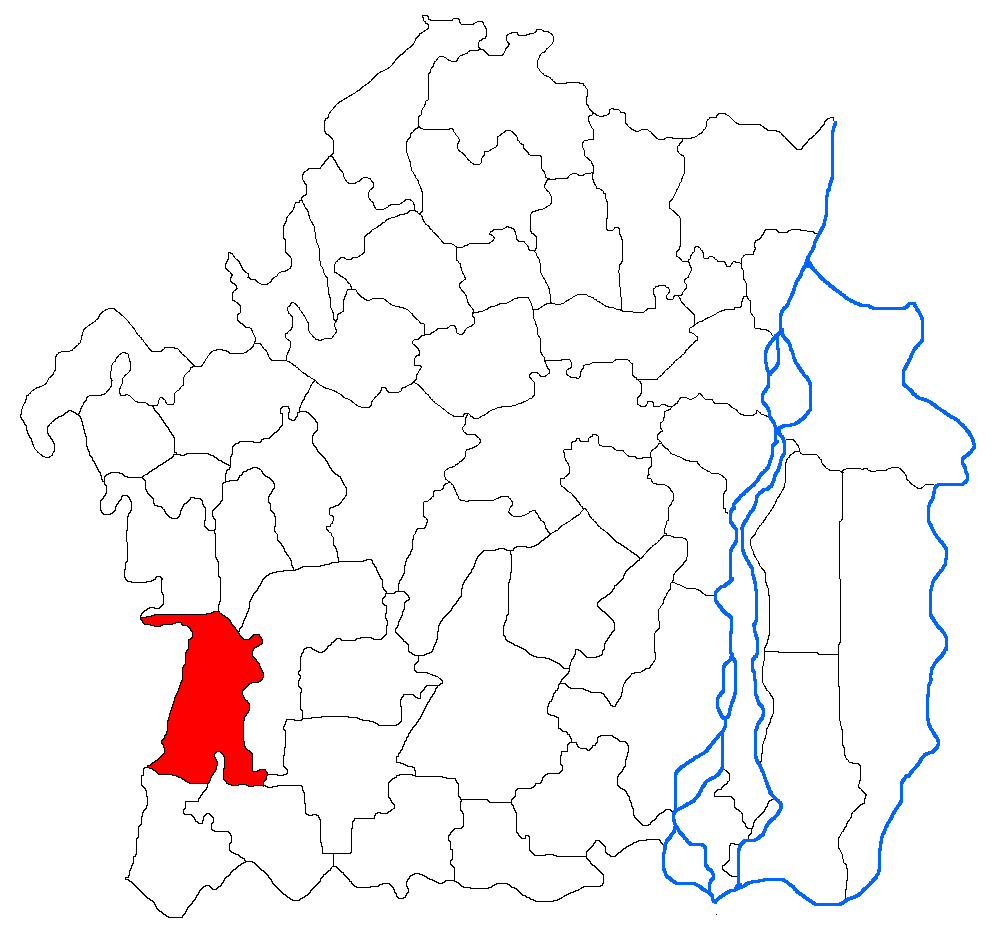 Limits of the commune of Ulmu in Brăila County, Romania